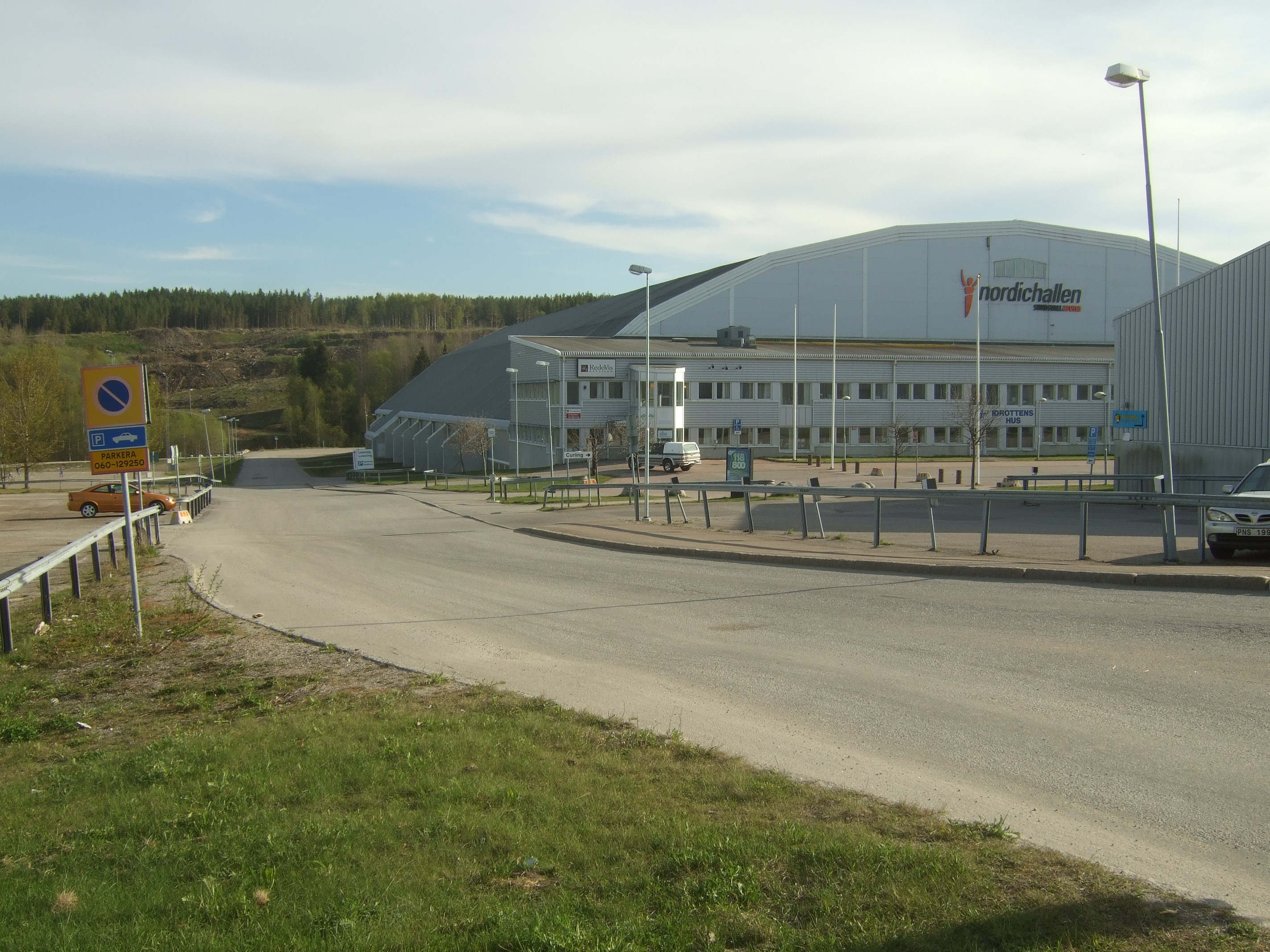 Nordichallen trade fair and indoor soccer arena at Gärdehov sports/fair centre, Sundsvall, Sweden